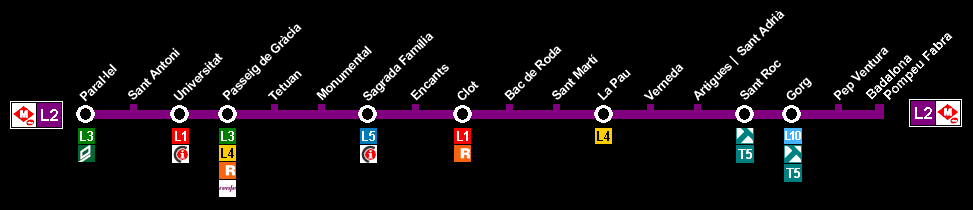 Map of Barcelona's metro line L2